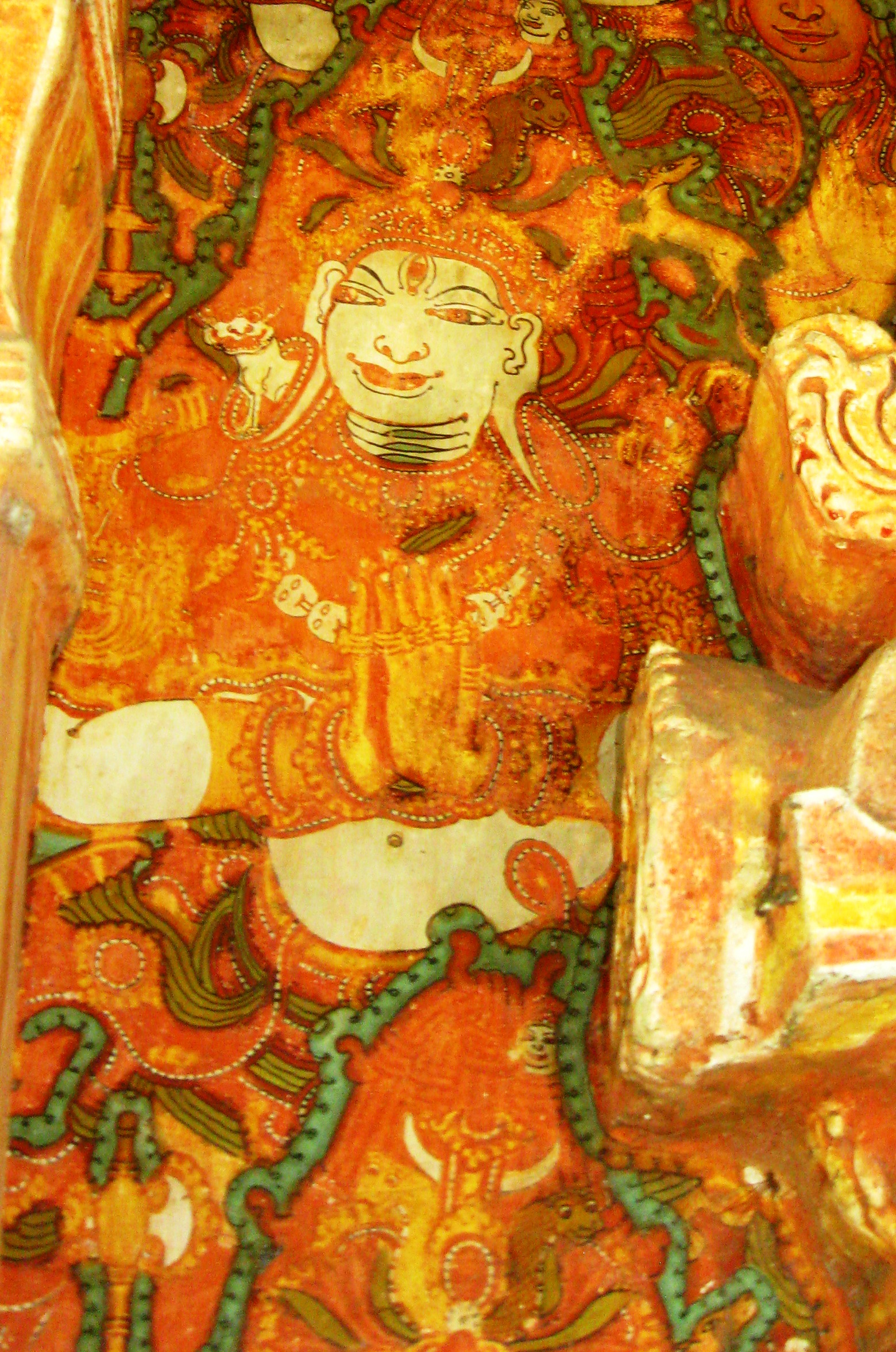 Thodeekkalam mural paintings,Kerala,Kannur